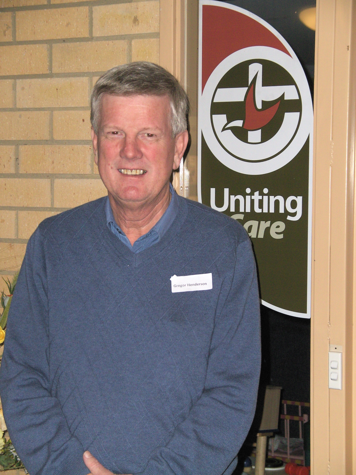 Depicted person: Gregor Henderson – Australian minister